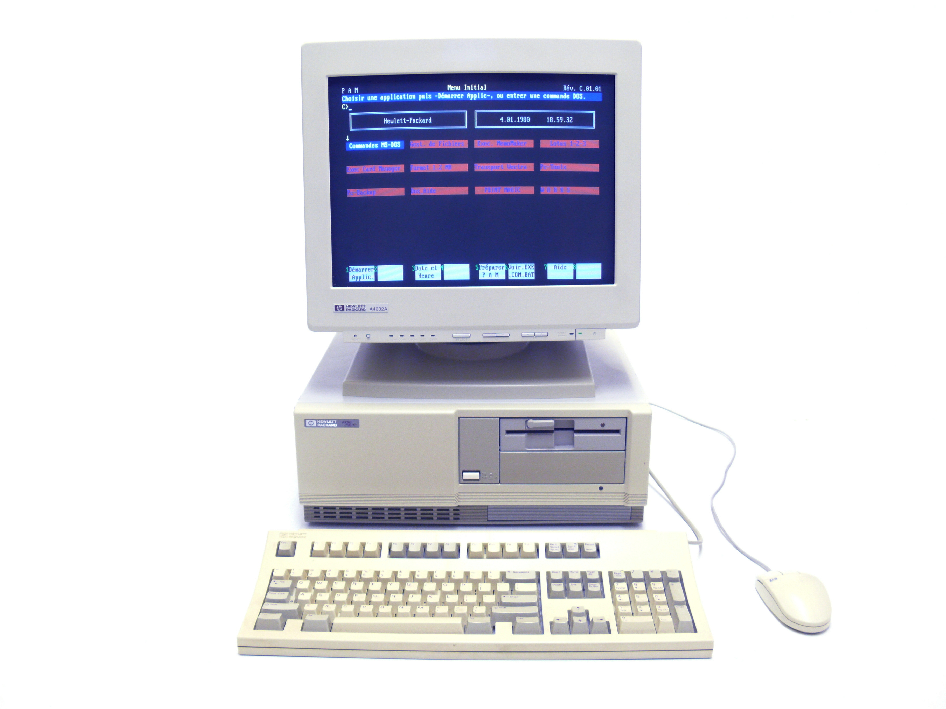 Hewlett-Packard HP Vectra 286/12 PC, CPU: Intel 286 - 16 bit - 12 MHz -, 5,25 inch floppy disk drive, max 1 MByte RAM, HP A4032A 17 inch CRT, Operating System: Microsoft MS-DOS 6.0.